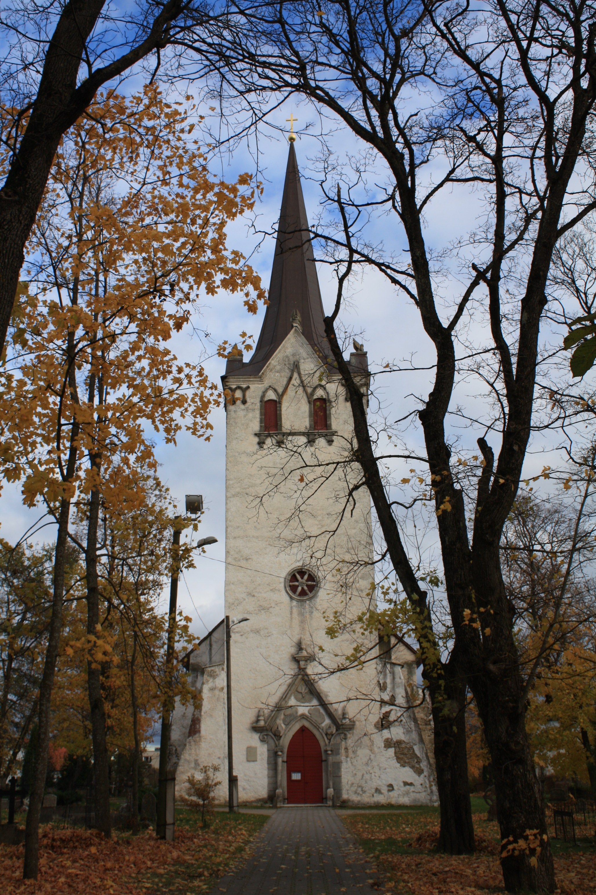 Keila church